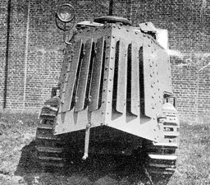 Soviet experimental „landing tank“ (APC) D-14 during the state tests, front view.